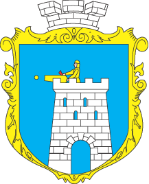 Coat of arms Belz (Lviv Oblast Ukraine)